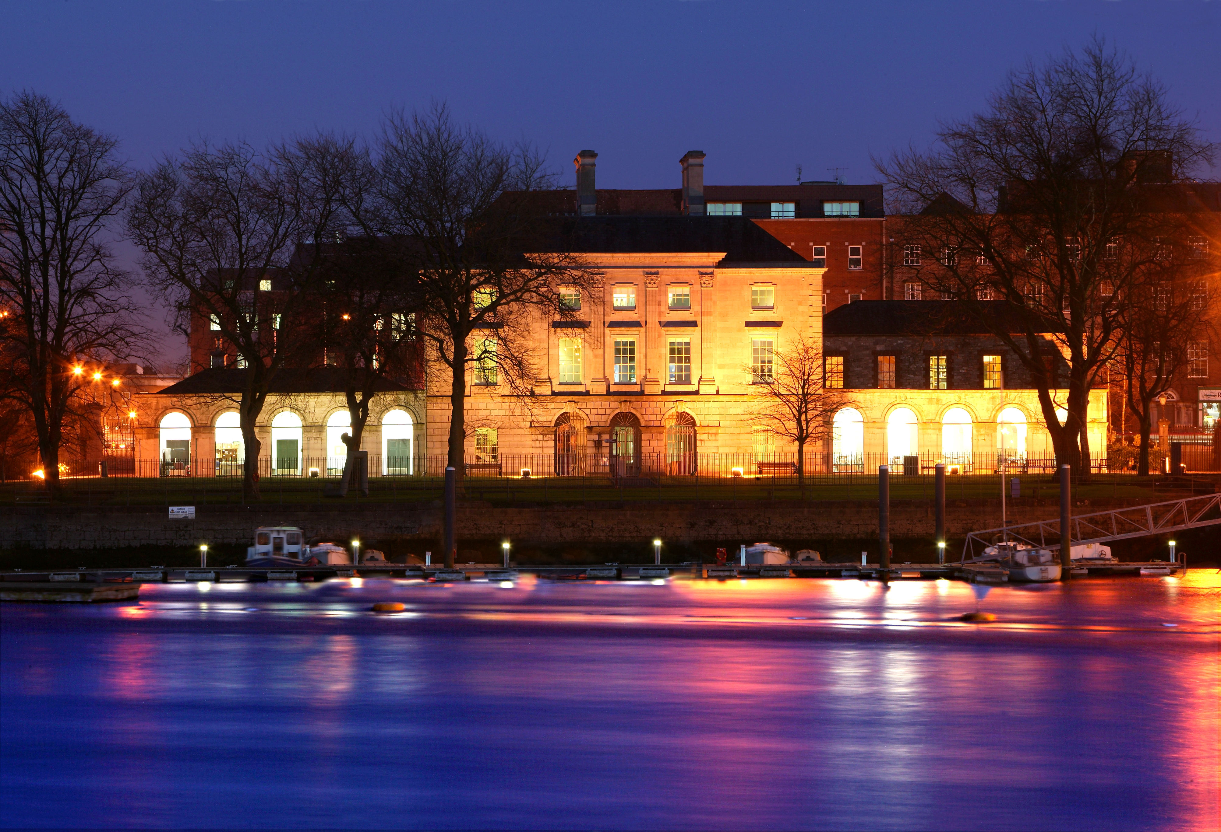 Nigh time view of the front of the Custom House from Clancy's Strand.